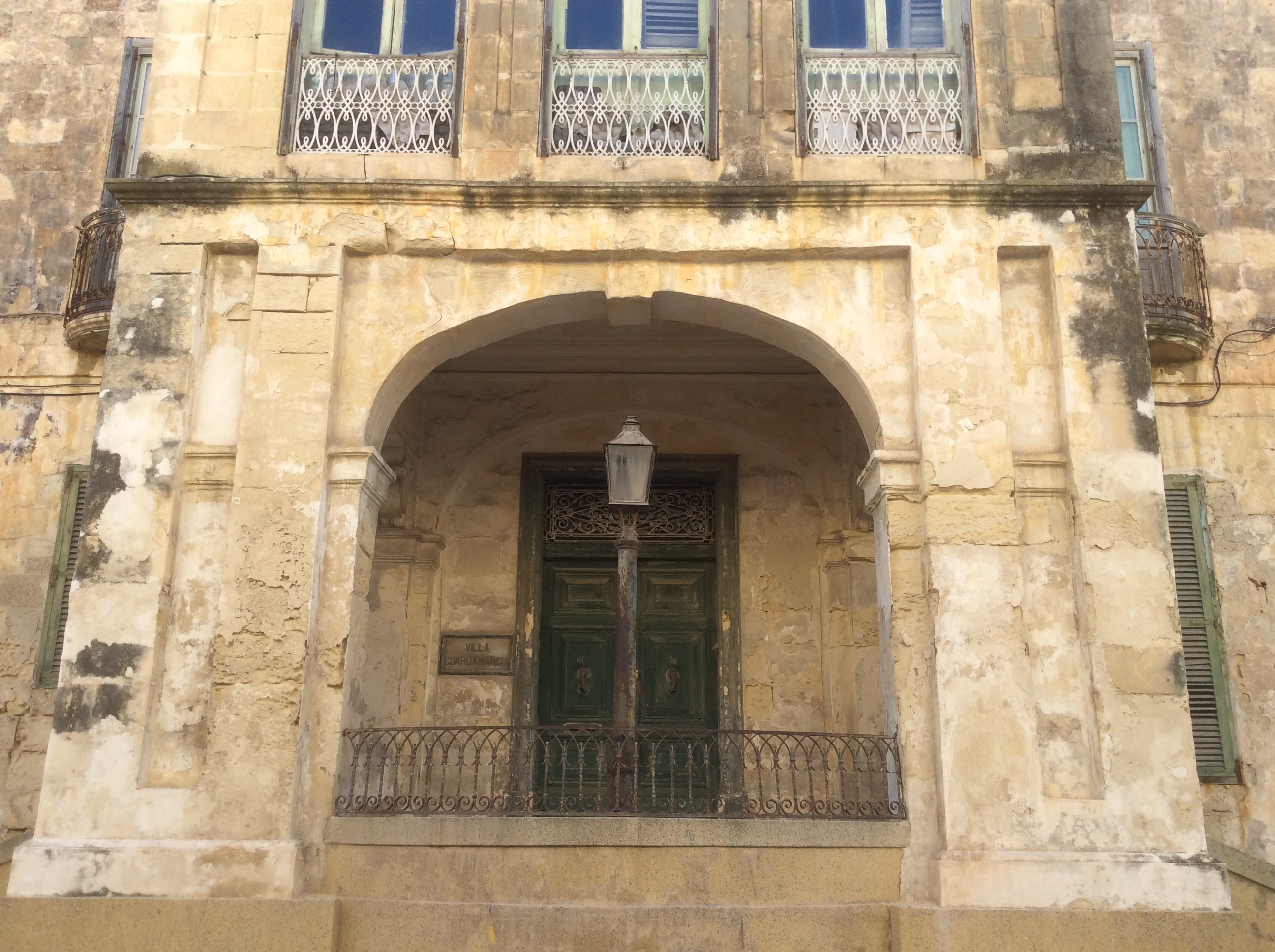 Villa Guardamangia Malta Elizabeth II